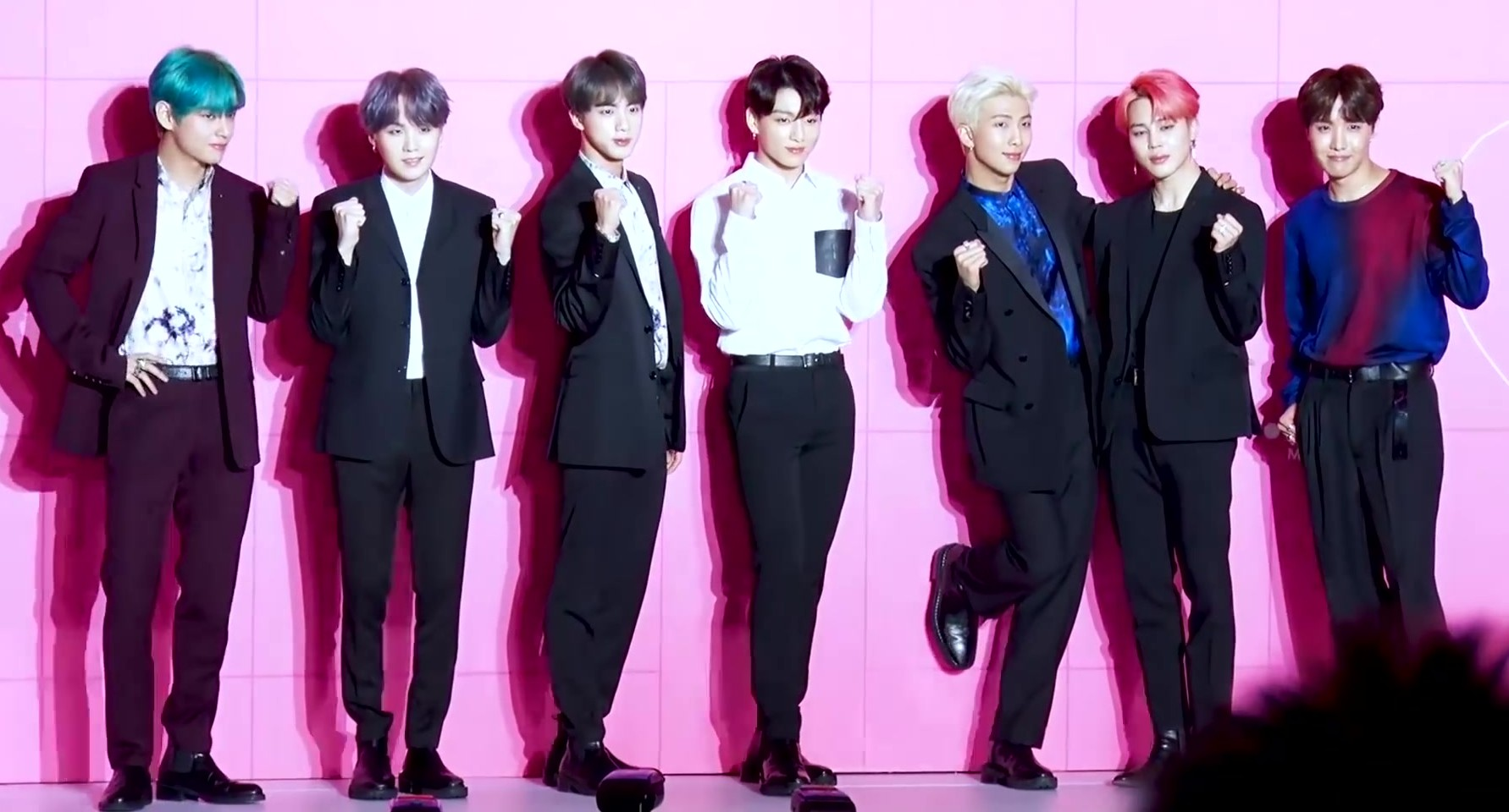 BTS at "Map of the Soul - Persona" global press conference, 17 April 2019